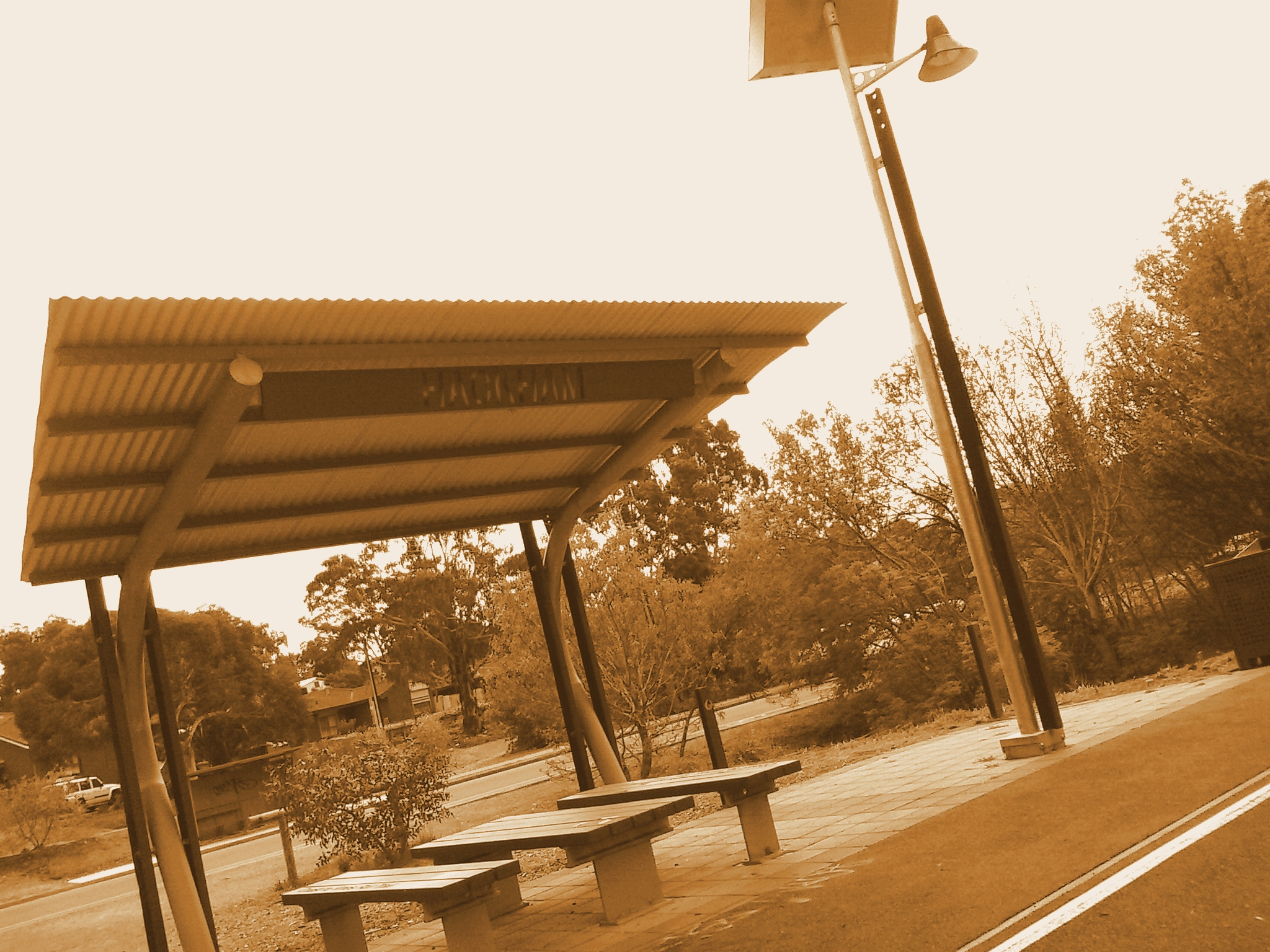 This is a photo of where the Hackham railway station use to stand.